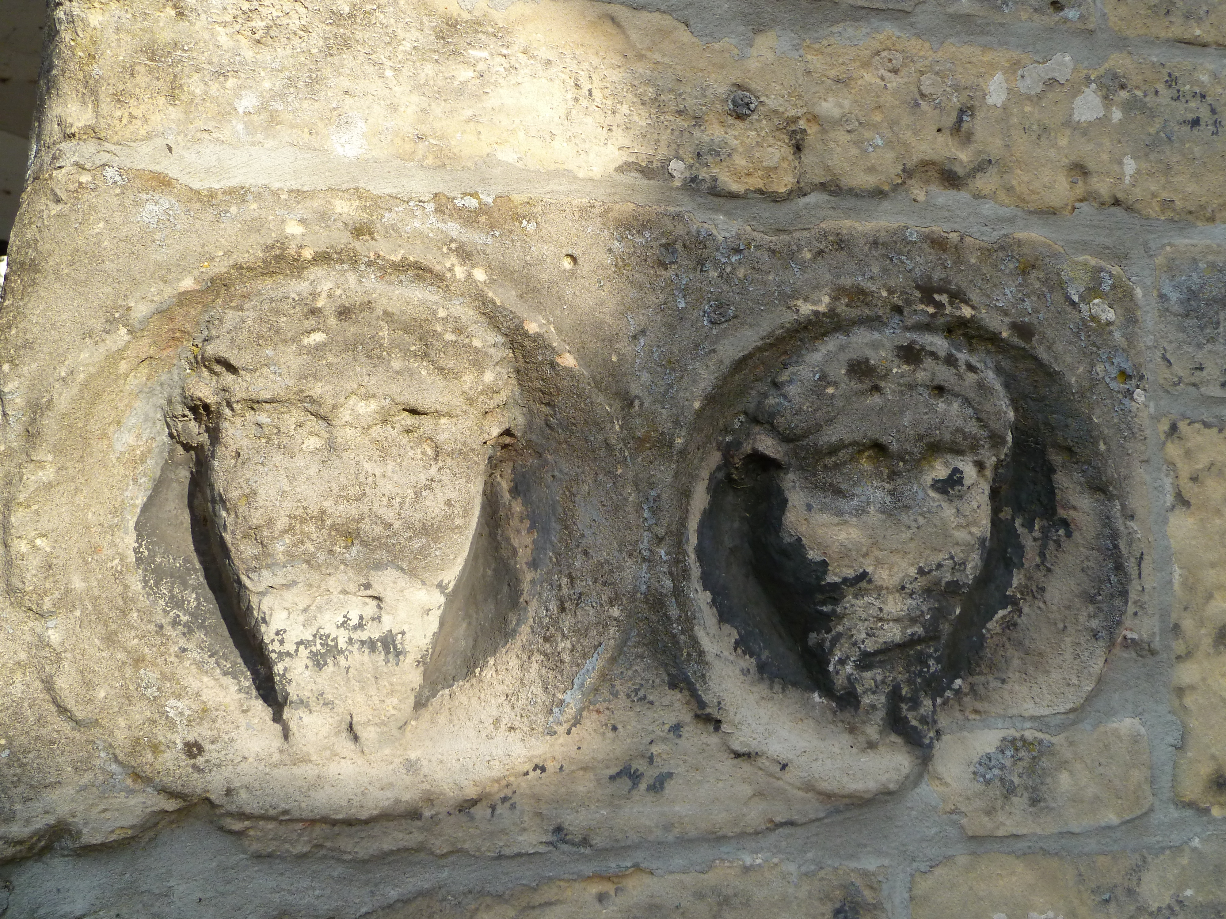 Castle Wijnandsrade, Wijnandsrade, Limburg, the Netherlands